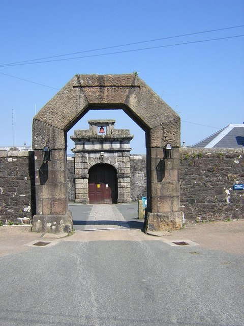 The main entrance to Dartmoor Prison.